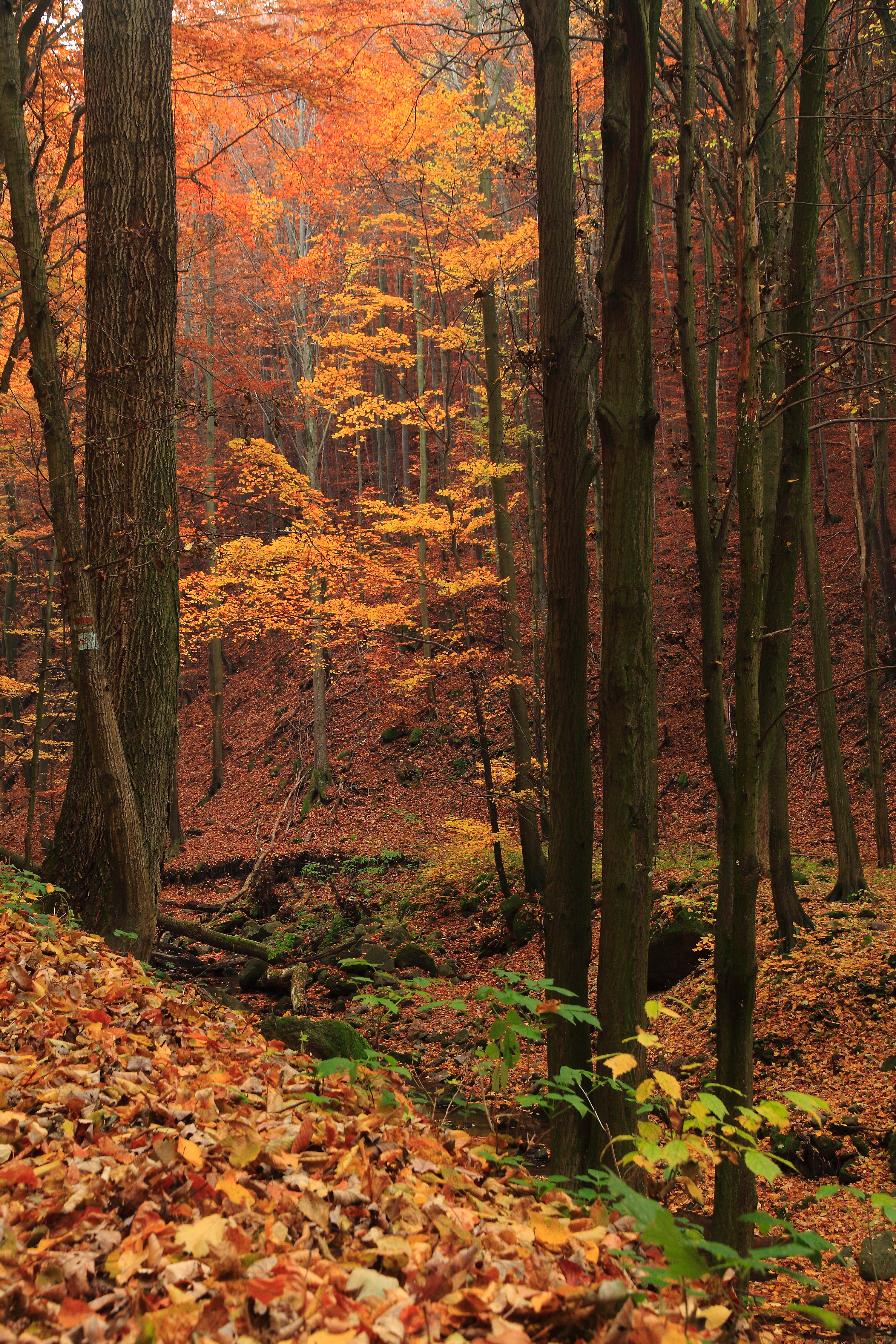 Typical autumn mood in Apátkúti Valley with Apát-kúti Stream, Visegradi Mountains, Pest megye, Hungary